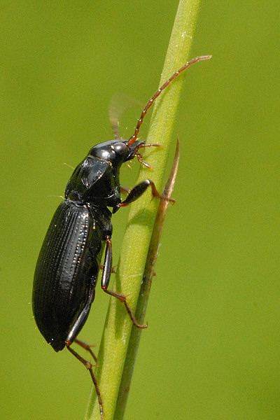 Nebria brevicollis from Commanster, Belgian High Ardennes .